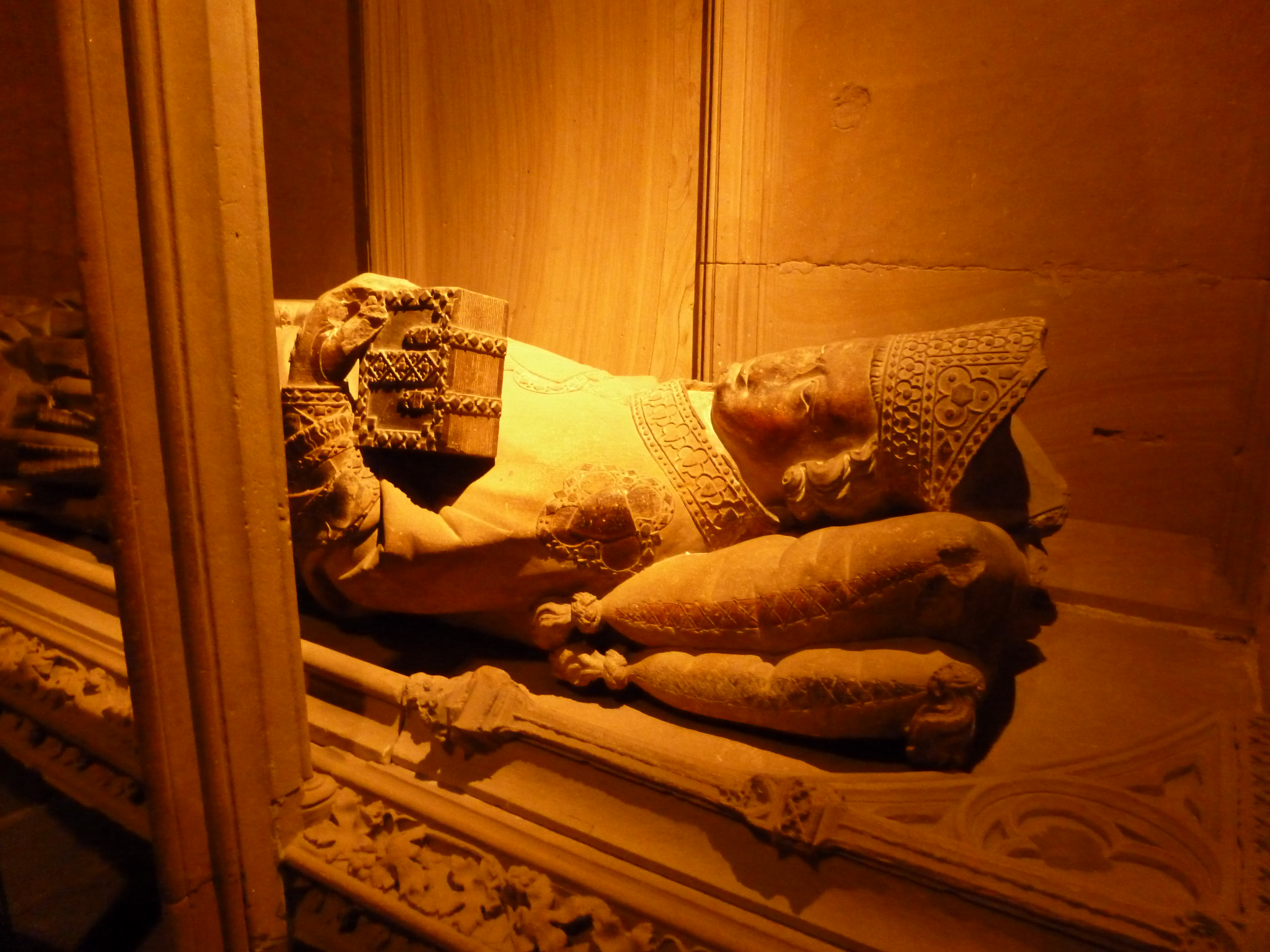 Tombstone of Conrad de Lichtenberg, bishop of Strasbourg in the 13th century. It is in the Chapelle Saint-Jean-Baptiste in the Strasbourg Cathedral